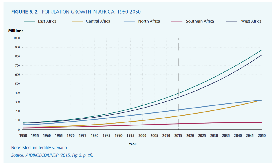 Population Growth in Africa, 1950 - 2050Română: Creșterea populației în Africa, 1950–2050